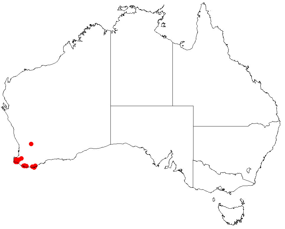 Persoonia graminea Occurrence data downloaded from Australasian Virtual Herbarium on 30 October 2018 from